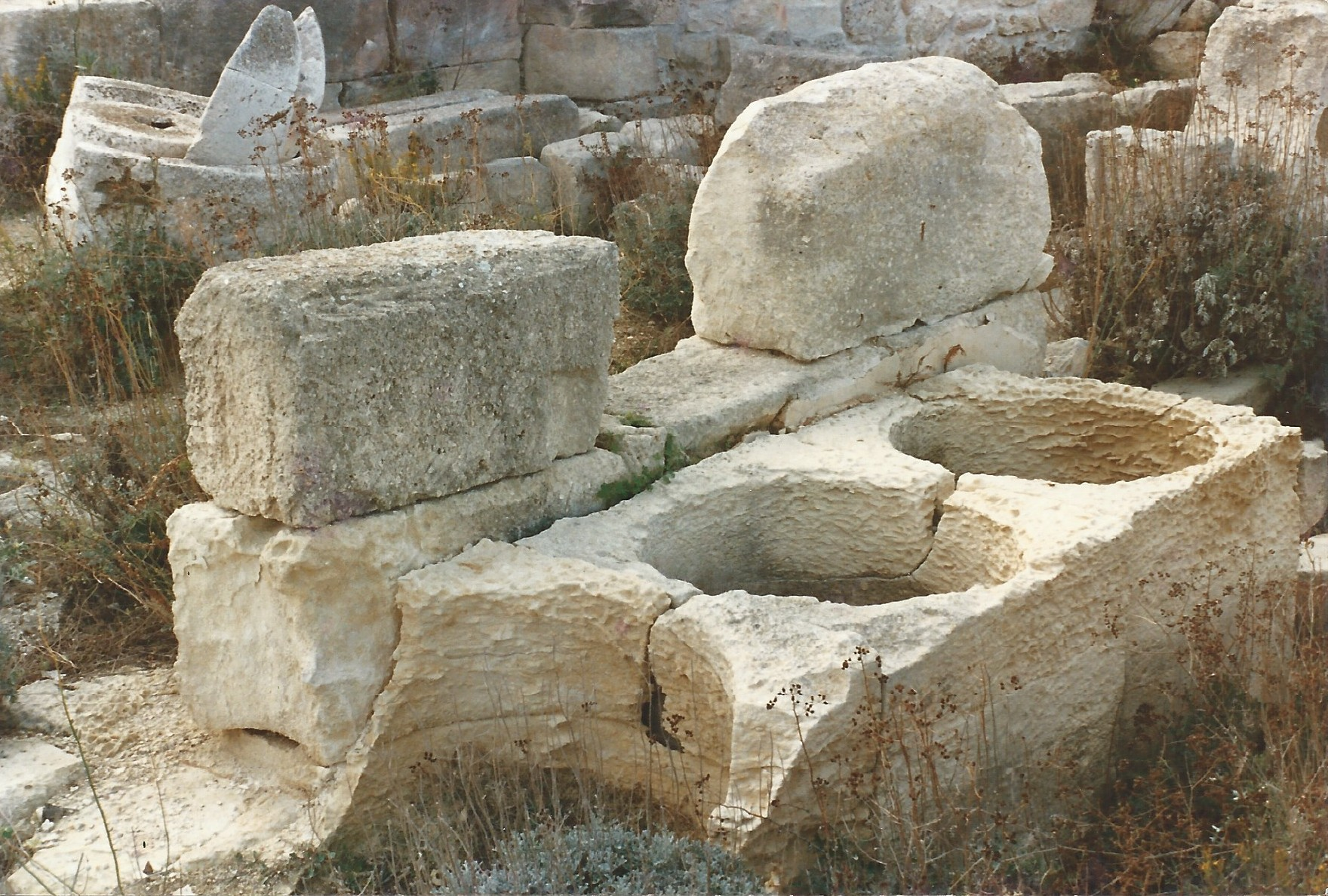 Settling tanks This media is about Maltese cultural property with inventory number 00014.